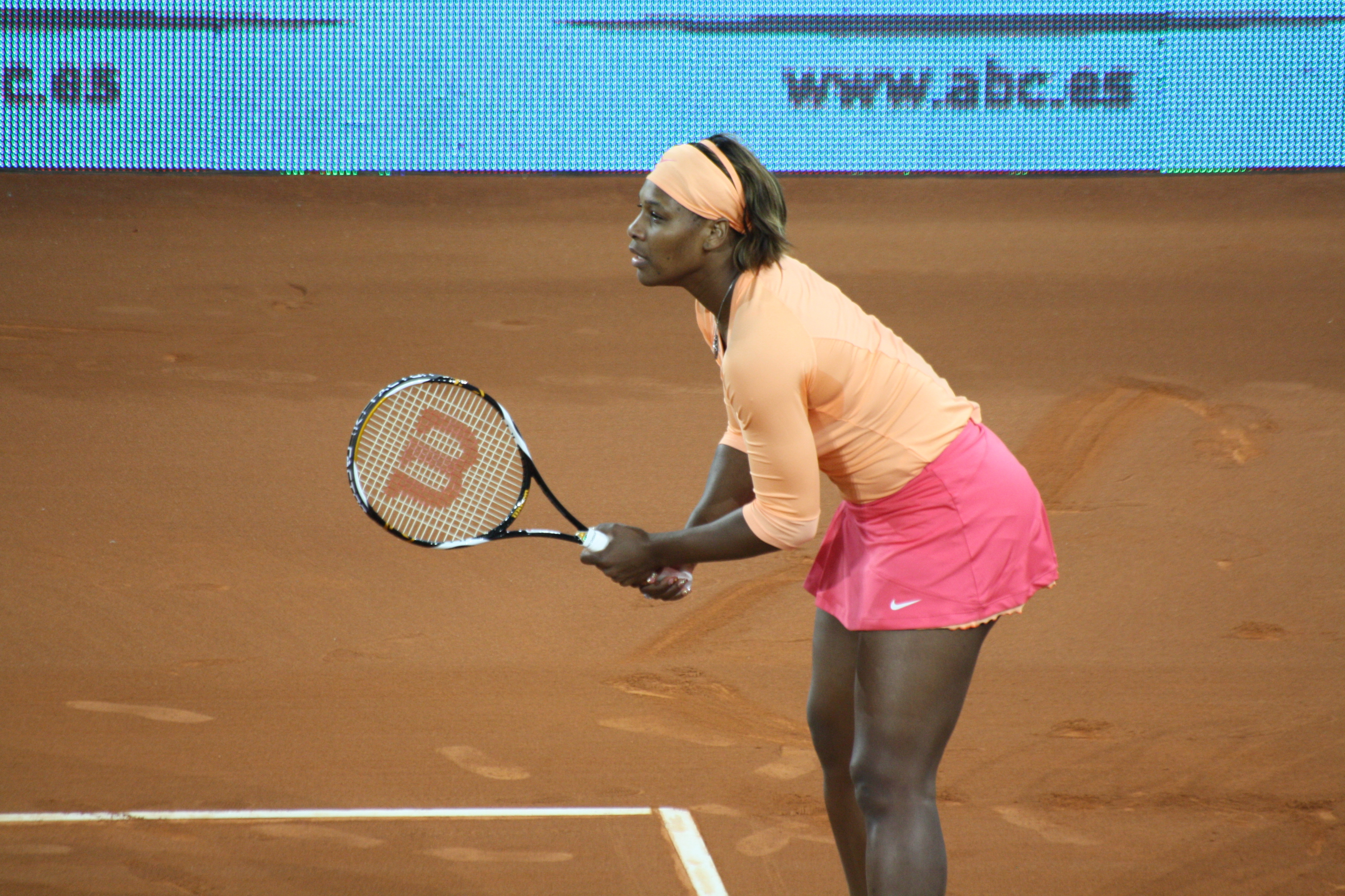 Serena Williams at the 2010 Mutua Madrileña Madrid Open